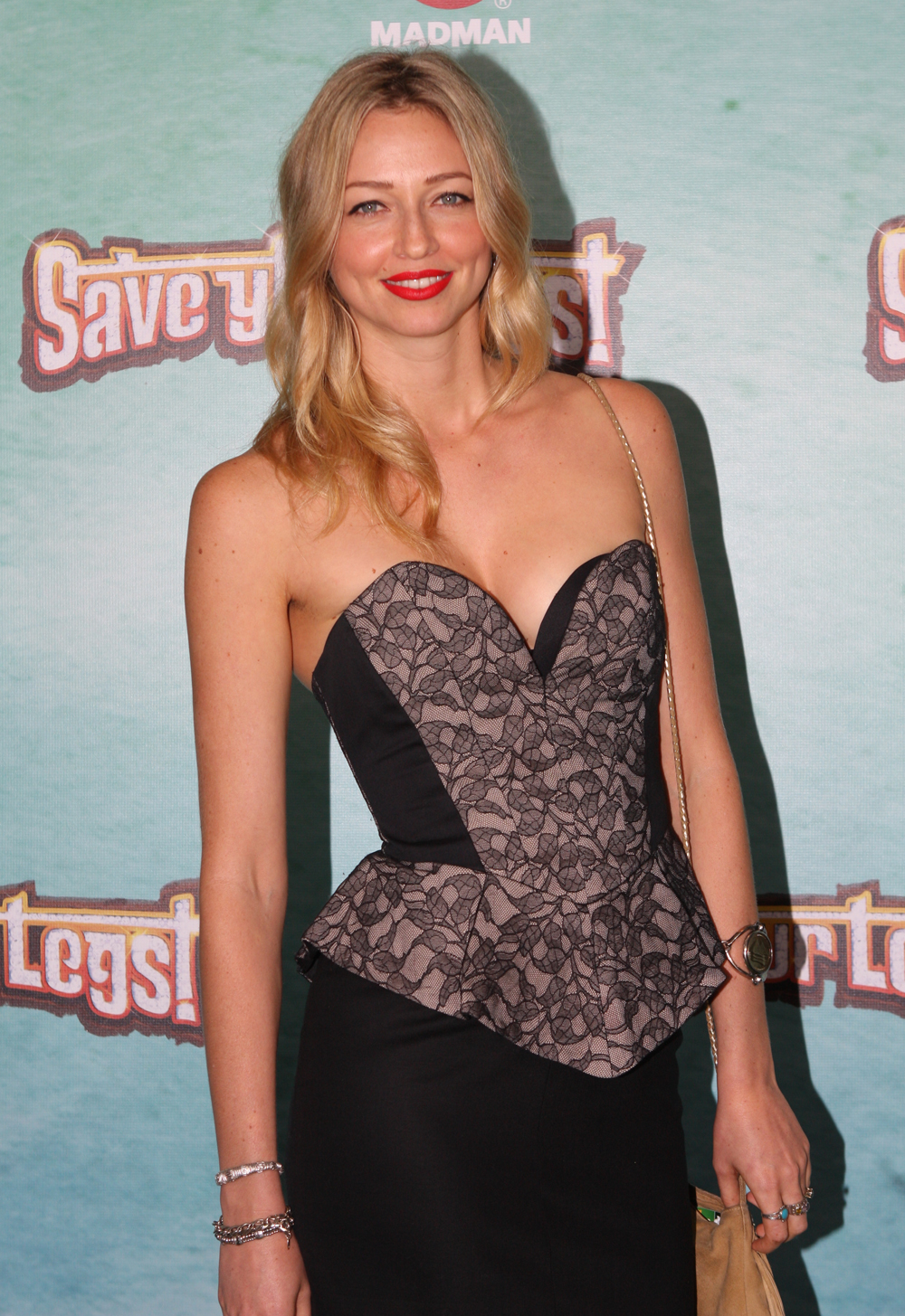 Zoe Tuckwell-Smith @ Save Your Legs movie premiere: Sydney, Australia...